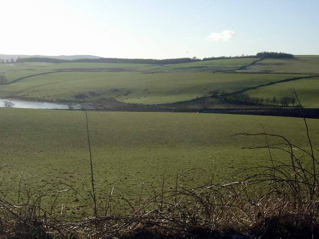 Creoch Loch and the Kilmarnock Dumfries railway line The railway line can just be seen, bisecting the photo from left to right.